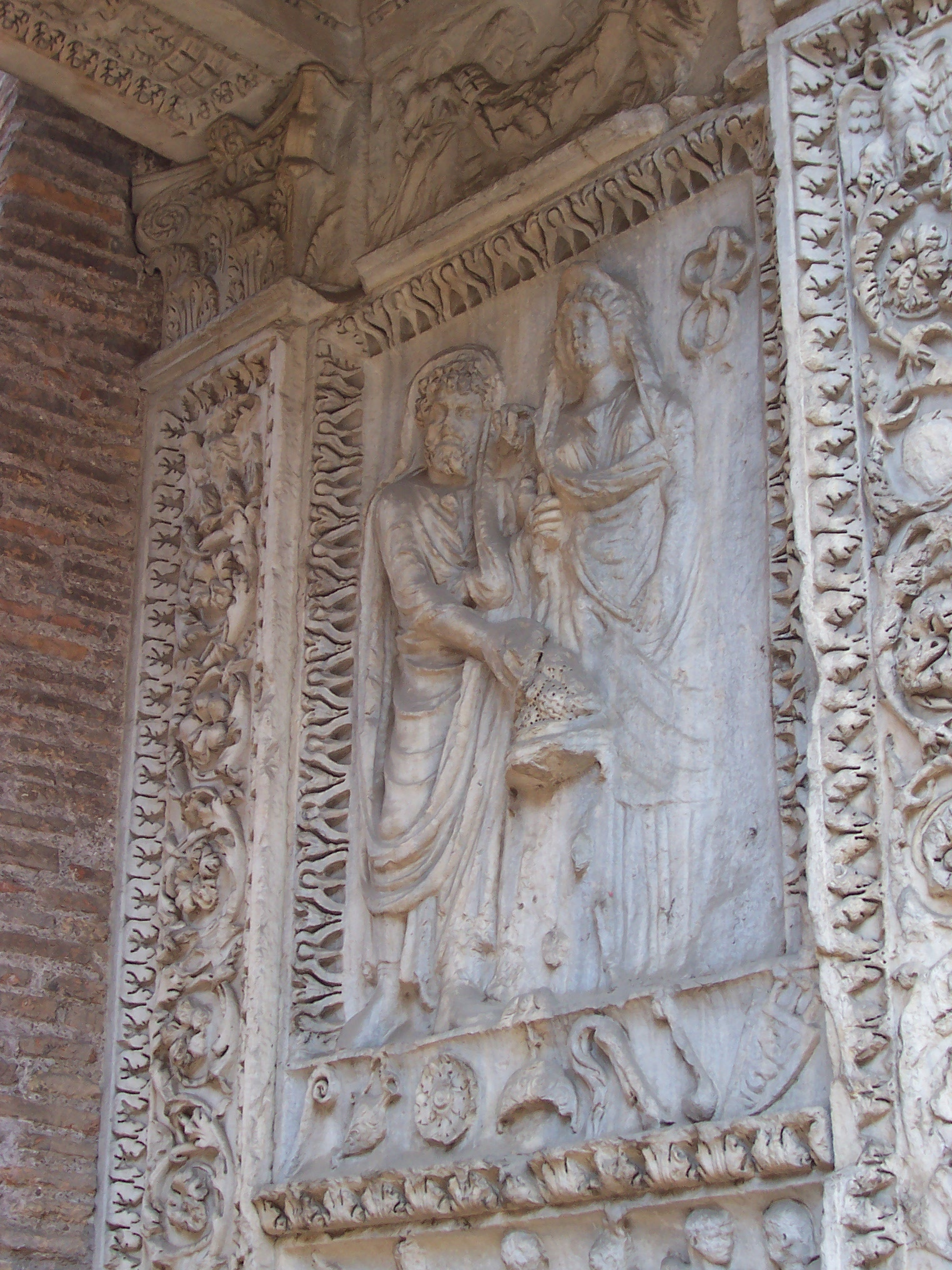 On the internal side, towards the basilica of San Giorgio in Velabro, a panel depicting Emepror Septimius Severus and his wife, Julia Domna. A missing image is on the right, possibly a young Geta, or a "small" (because less important) Flavia Plautilla, Caracalla's wife